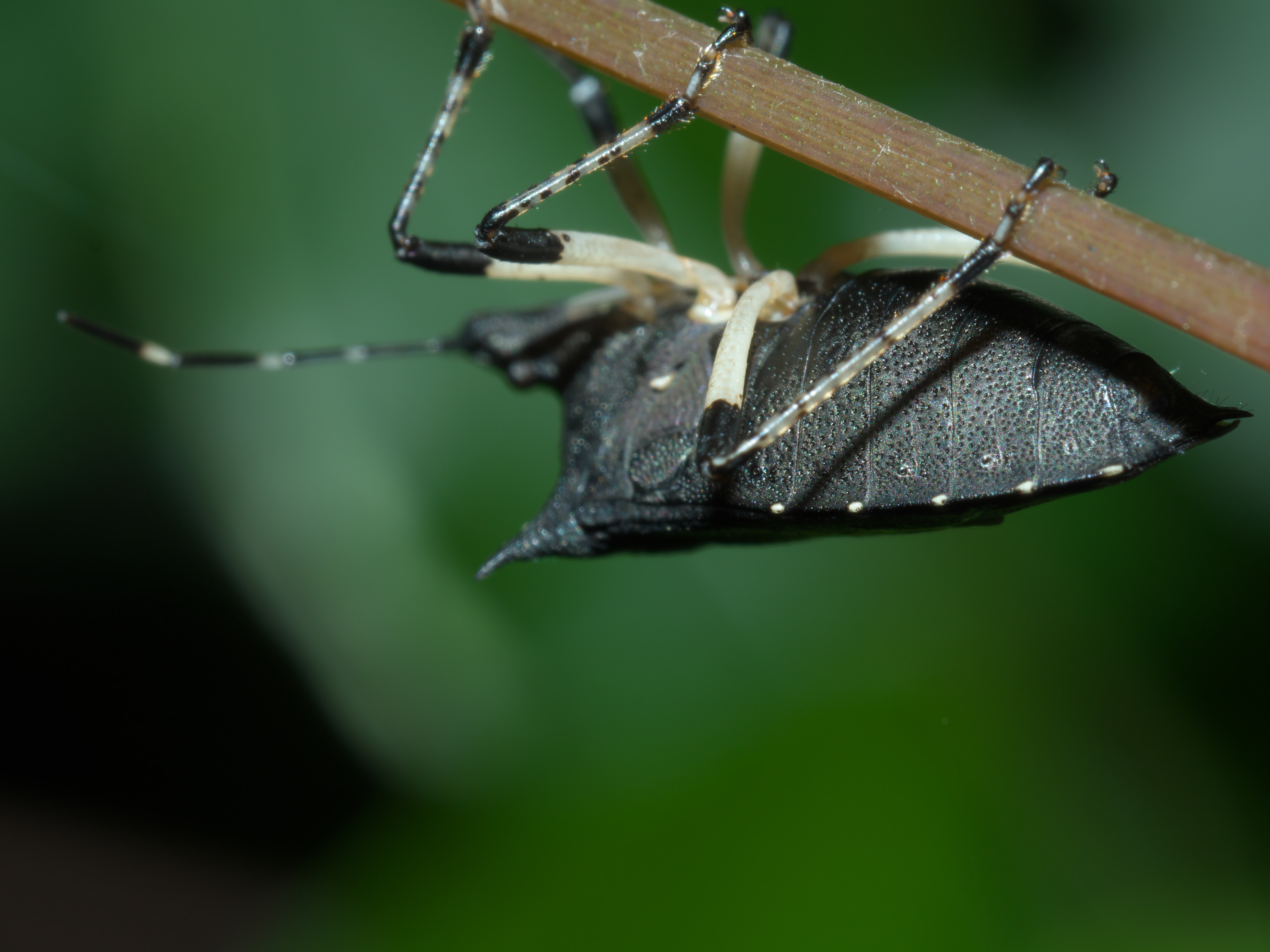 Proxys punctulatus, Black Stink Bug, Size: about 10.5 mm, ID Confidence: 88